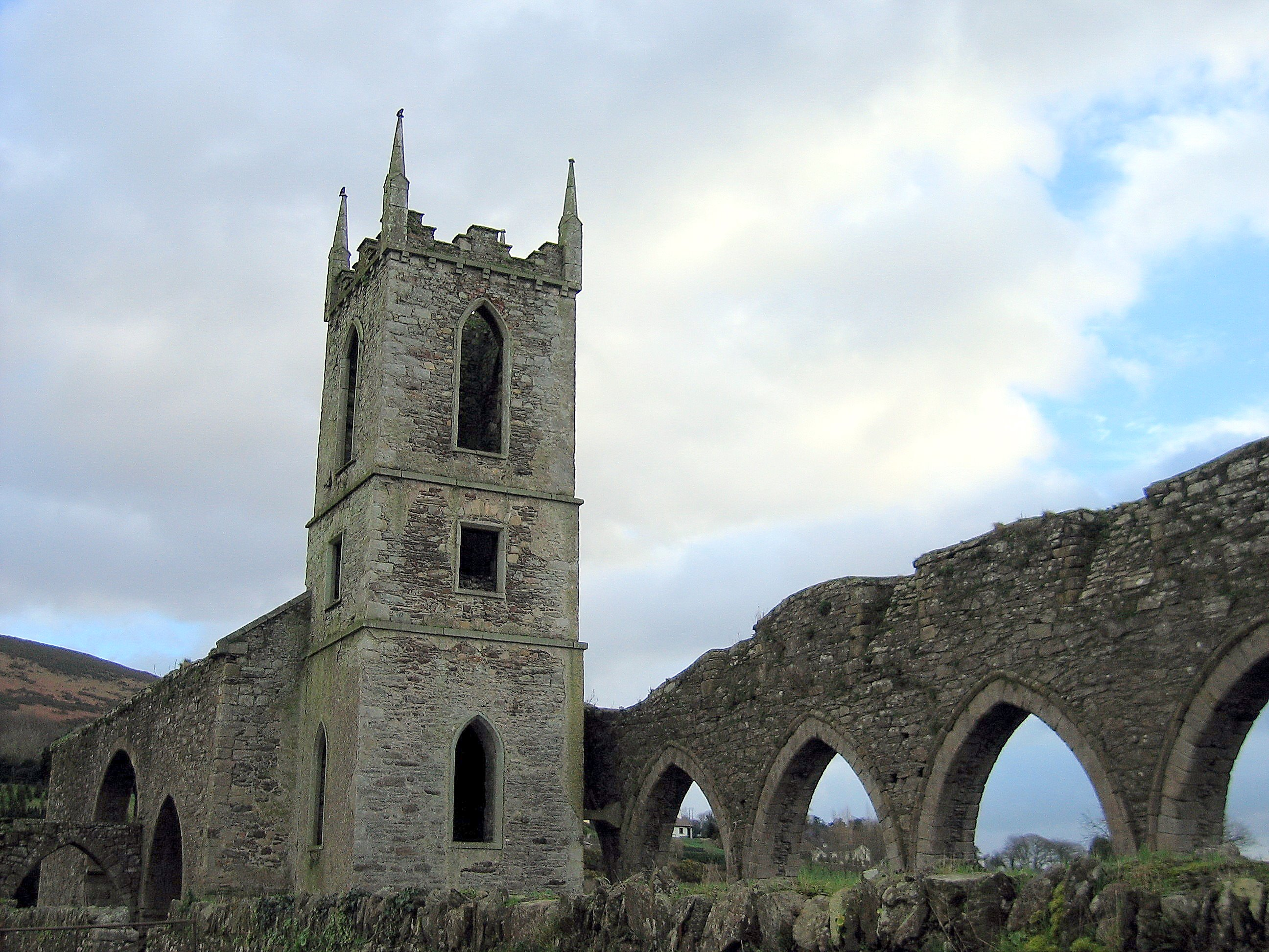 Baltinglass Abbey, Baltinglass, County Wicklow, Ireland